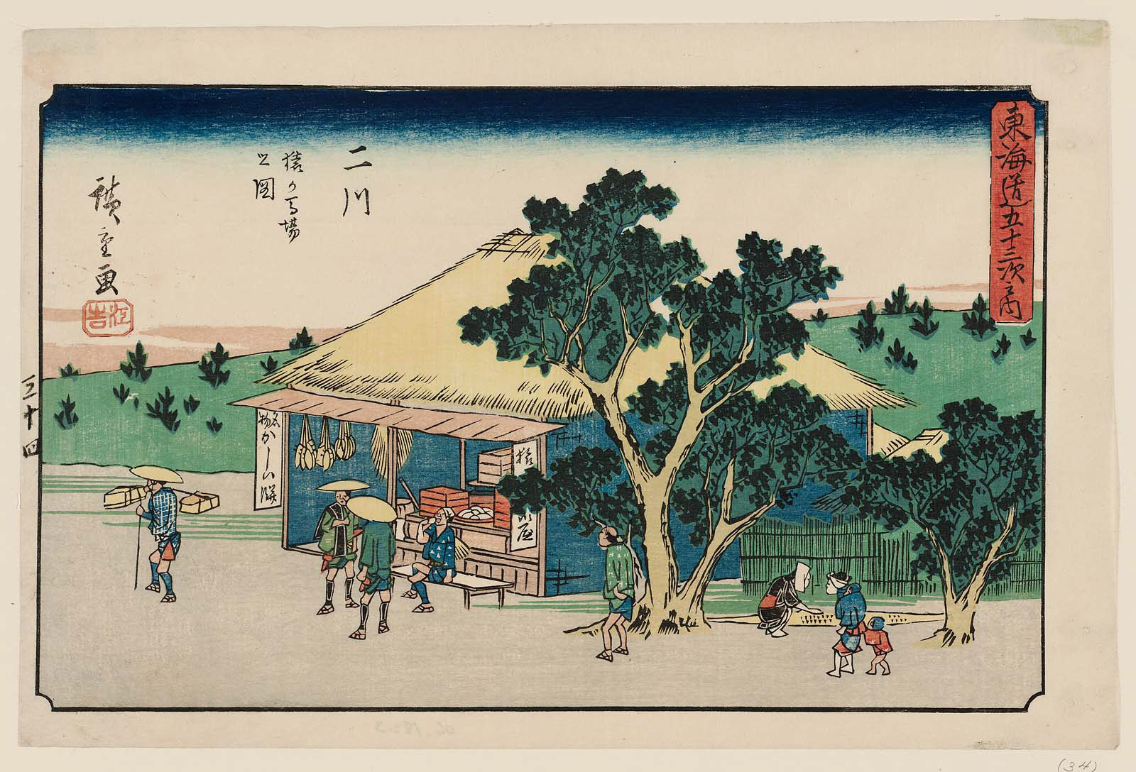 Futakawa: View of Sarugababa (Futakawa, Sarugababa no zu) , from the series The Fifty-three Stations of the Tôkaidô Road (Tôkaidô gojûsan tsugi no uchi), also known as the Gyôsho Tôkaidô